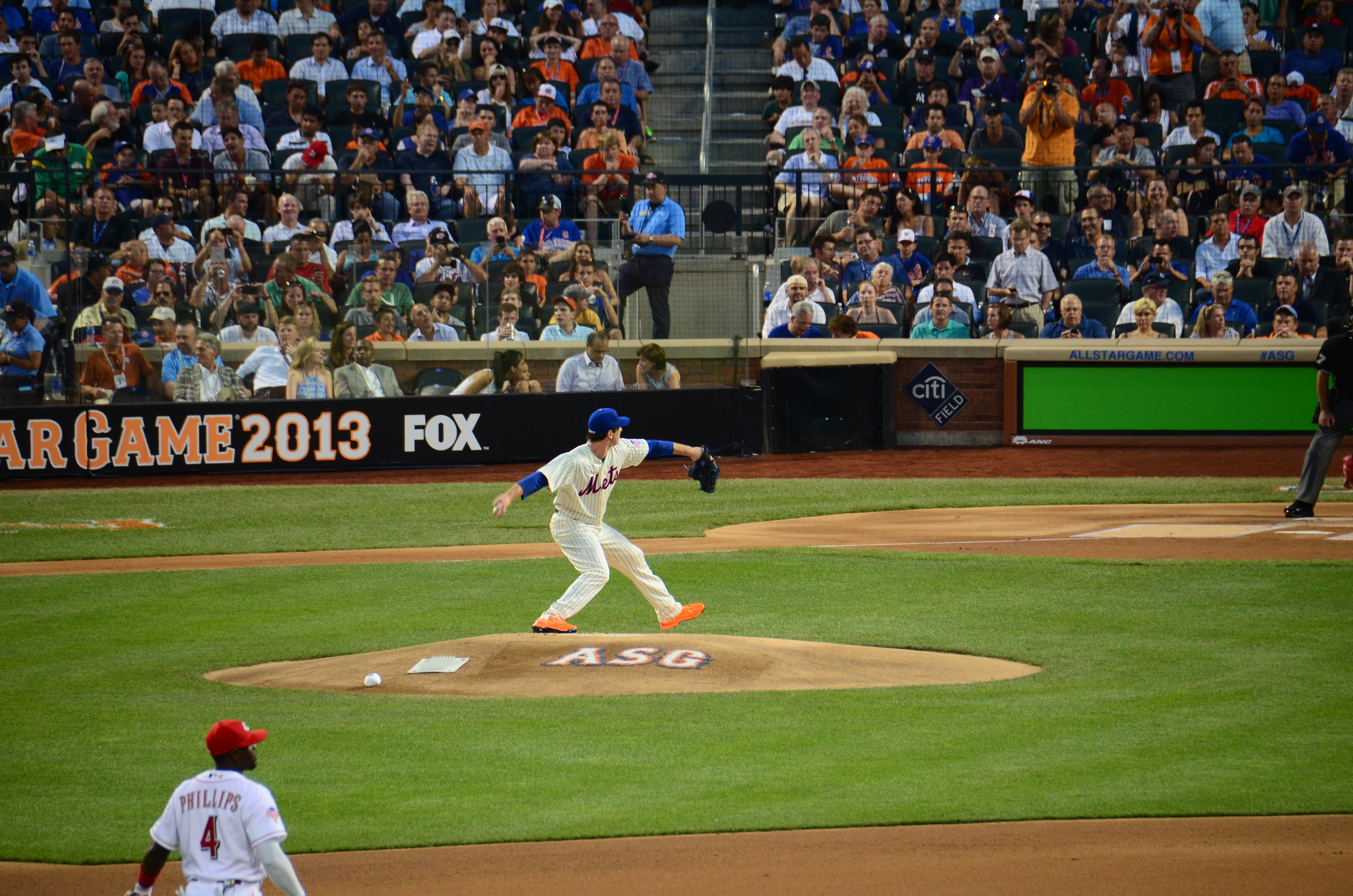 Harvey pitching in the 2013 MLB allstar game.